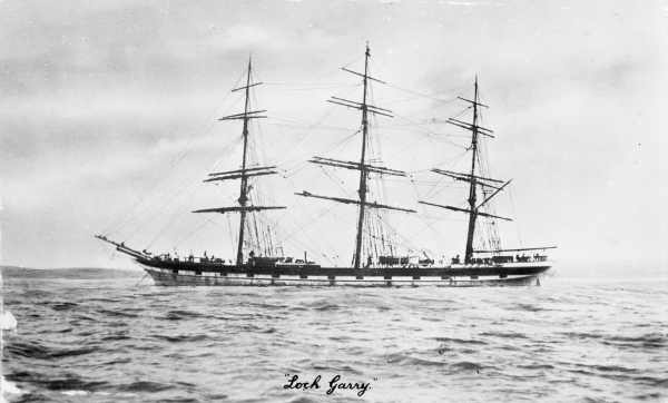 Creator unknown. Black and white image of 3 masted sailing ship Loch Garry. Item held by State Library of Victoria as part of Malcolm Brodie shipping collection. Item number: H99.220/3374. Format: postcard; gelatin silver ; 8.2 x 13.4 cm. Taken between 1885 and 1919.